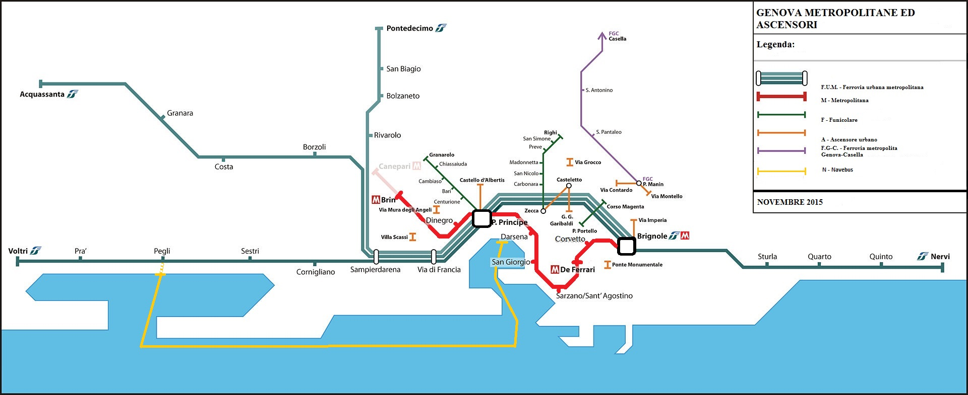 Genoa's metropolitan system